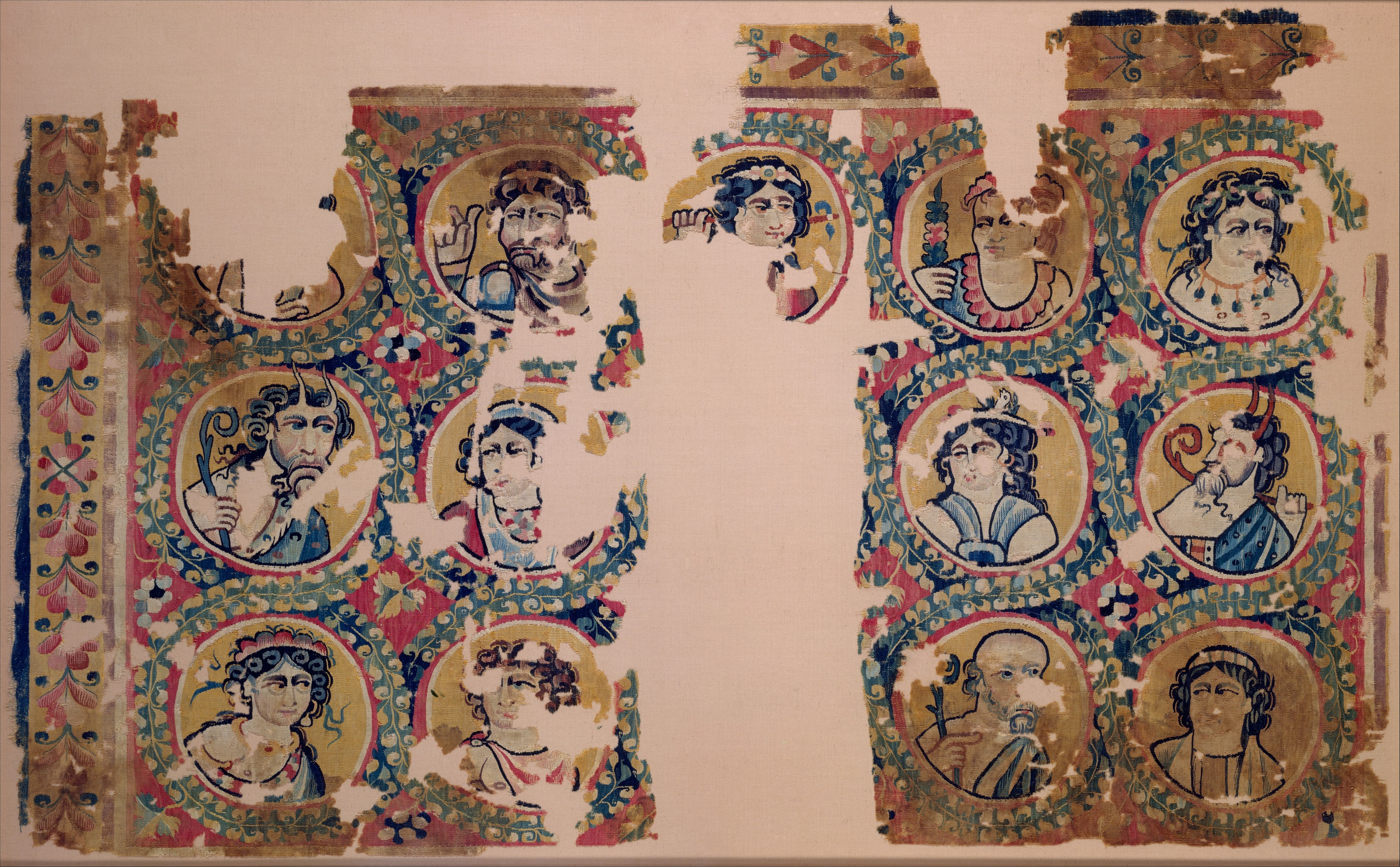 Fragment of a hanging; Textiles-Woven